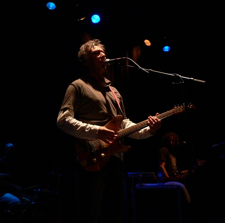 John Cale with drummer Michael Jerome (in the dark on the left side) and bassist Joe Karnes (right) in 2006.